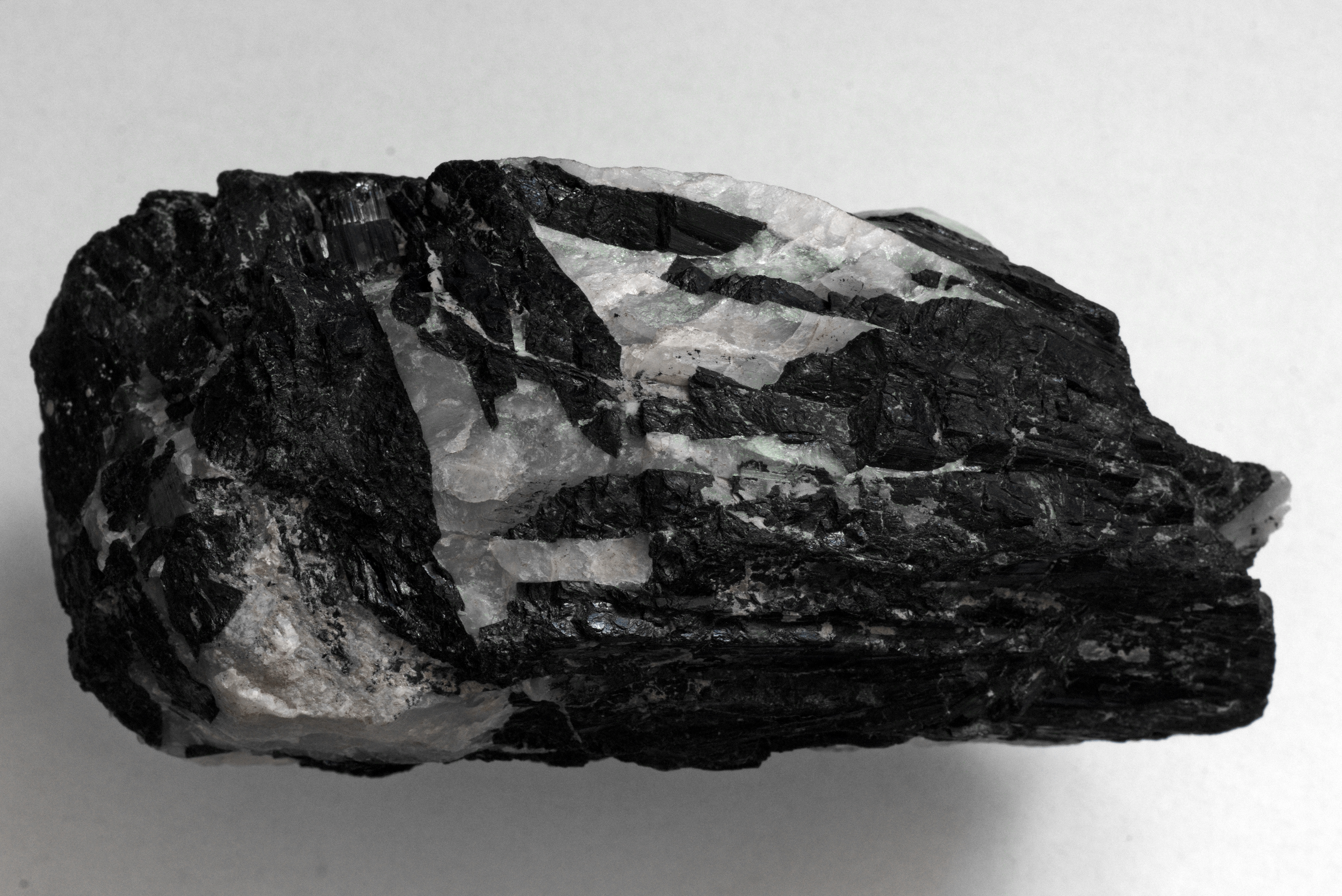 Wolframite , Krásno, Karlovy Vary Region, Czech Republic